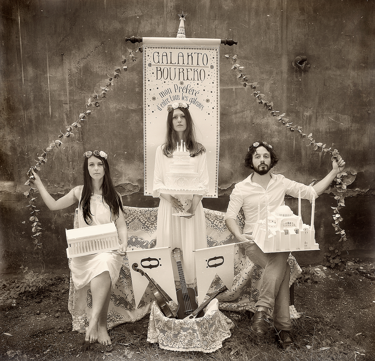 Ödland (album Galaktoboureko) 2013